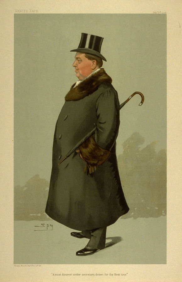 Men of the Day No.0950: Caricature of Lord Donoughmore. Caption reads: "A most discreet under secretary, drawn for the first time"